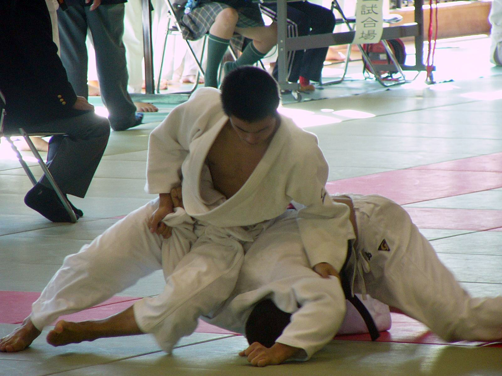 Omoplata armlock common in Brazilian Jiu-jitsu.